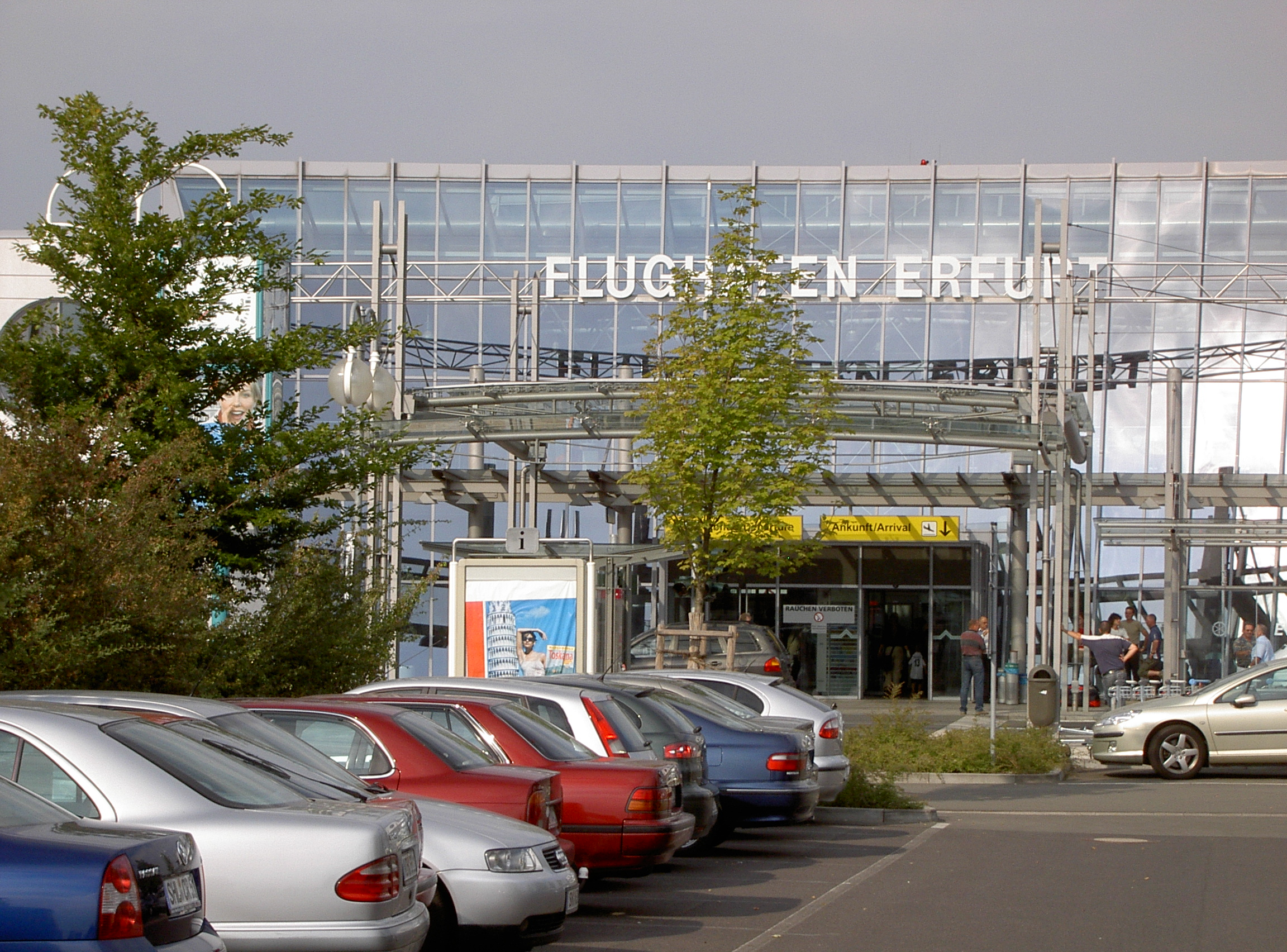 Airport Erfurt, Germany